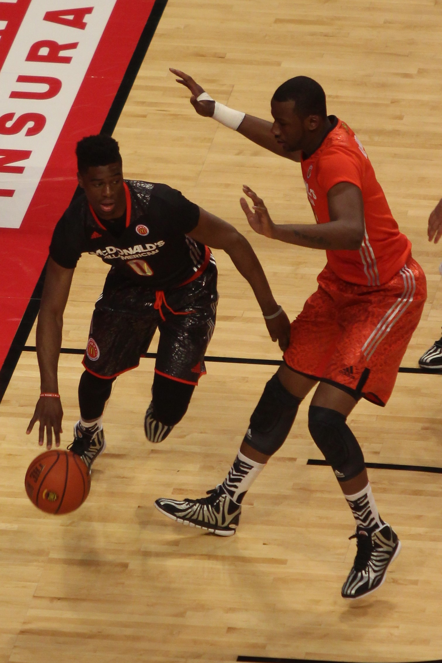 Emmanuel Mudiay against Cliff Alexander in the w:2014 McDonald's All-American Boys Game